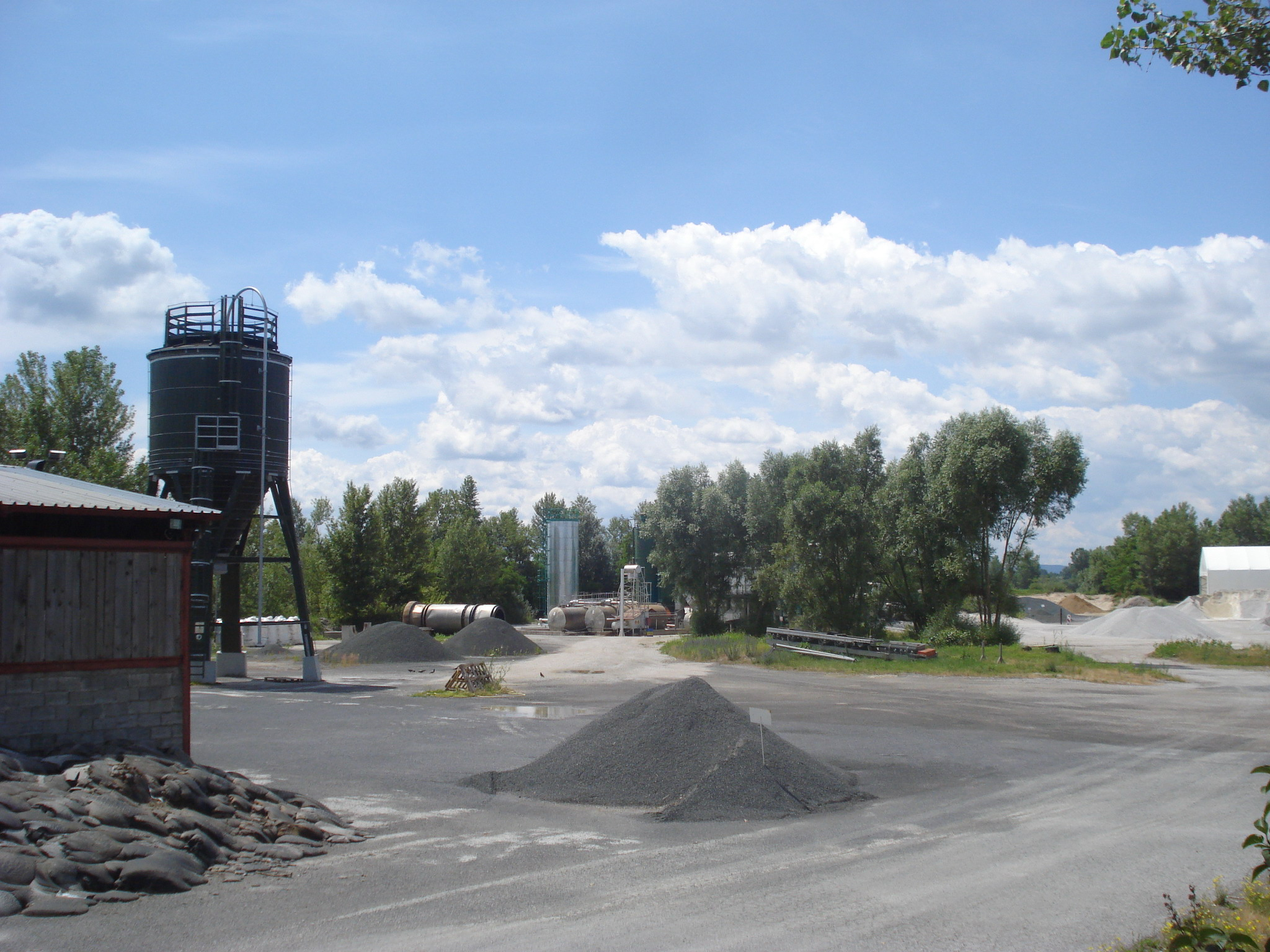 Asphalt plant for hot mix in Ivanovec, Medjimurje County, Croatia - north by north-east viewHrvatski: Asfaltna baza u Ivanovcu, Međimurska županija, Hrvatska - pogled sa sjever-sjeveroistočne strane